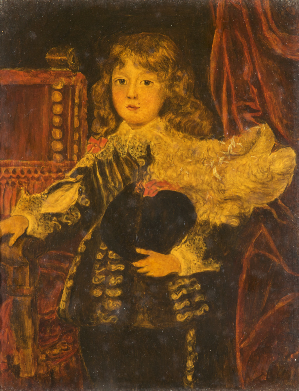 Alexander Farnese, Prince of Parma (1635-1689), later governor of the Netherlands.